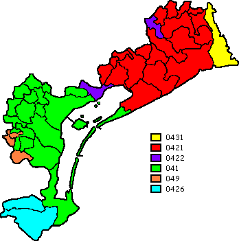 Map of telephone area codes of the province of Venice